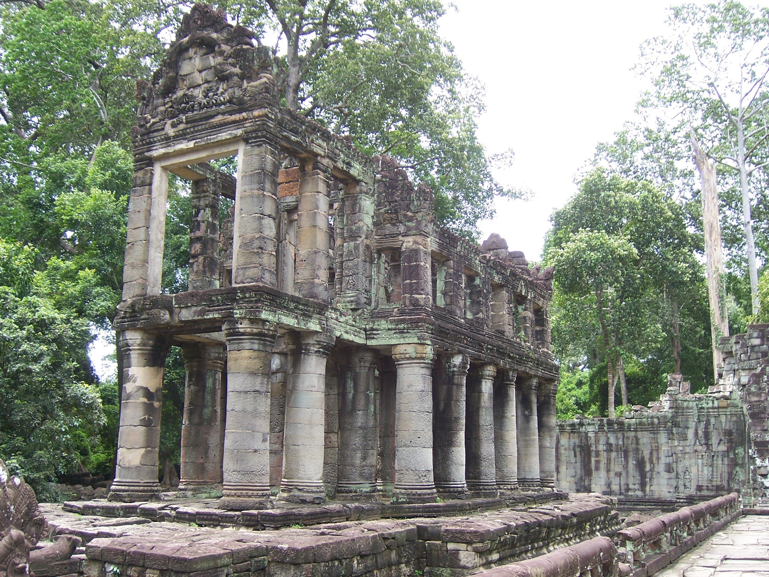 Columned building at Preah Khan site (Angkor temples), north of Siam Reap, Cambodia